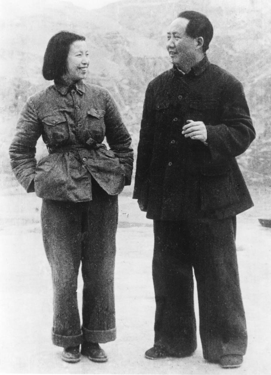 Young Jiang Qing and Mao in Yan'an in 1930s.